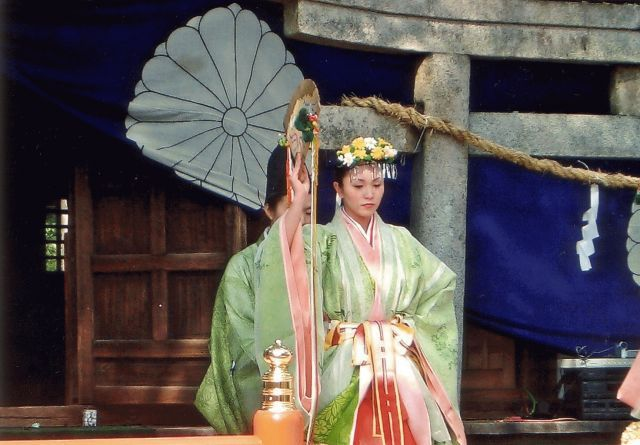 Urayasu no mai